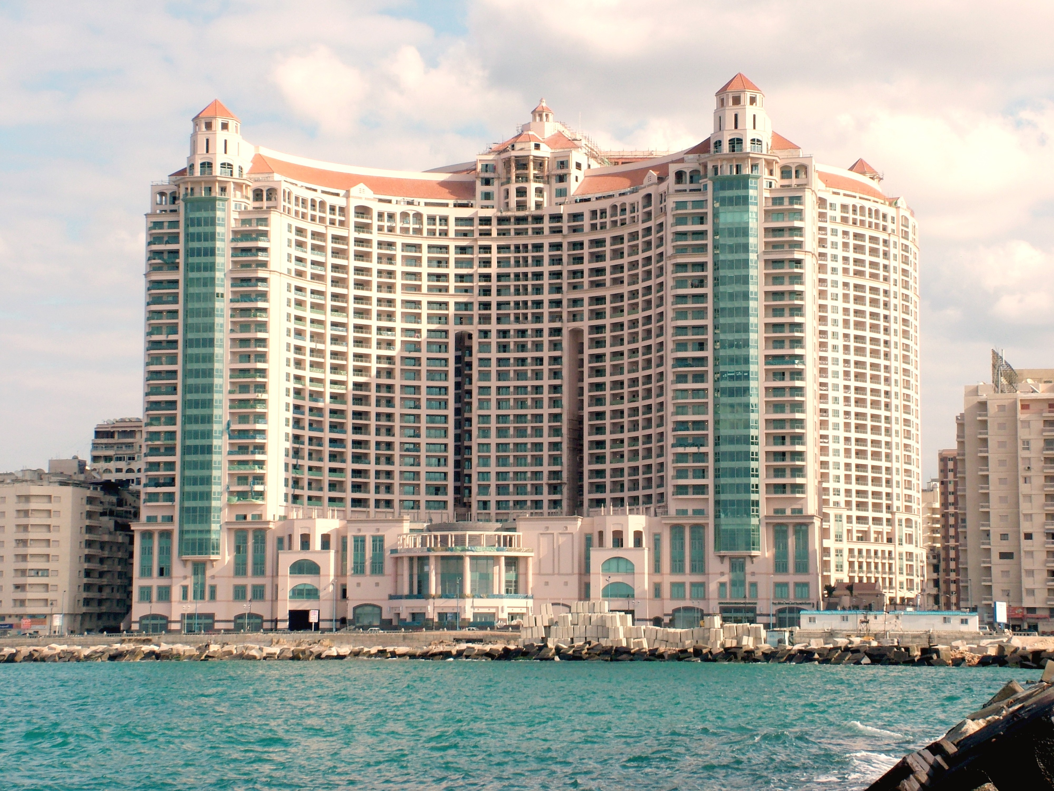 سان ستيفانو جراند بلازا San Stefano Grand Plaza, Alexandria, Egypt